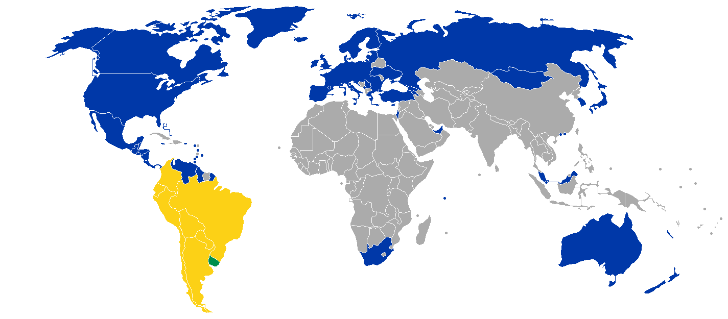 Visa policy of Uruguay Uruguay Visa-free (Passport and ID card entry) Visa-free (Passport entry)